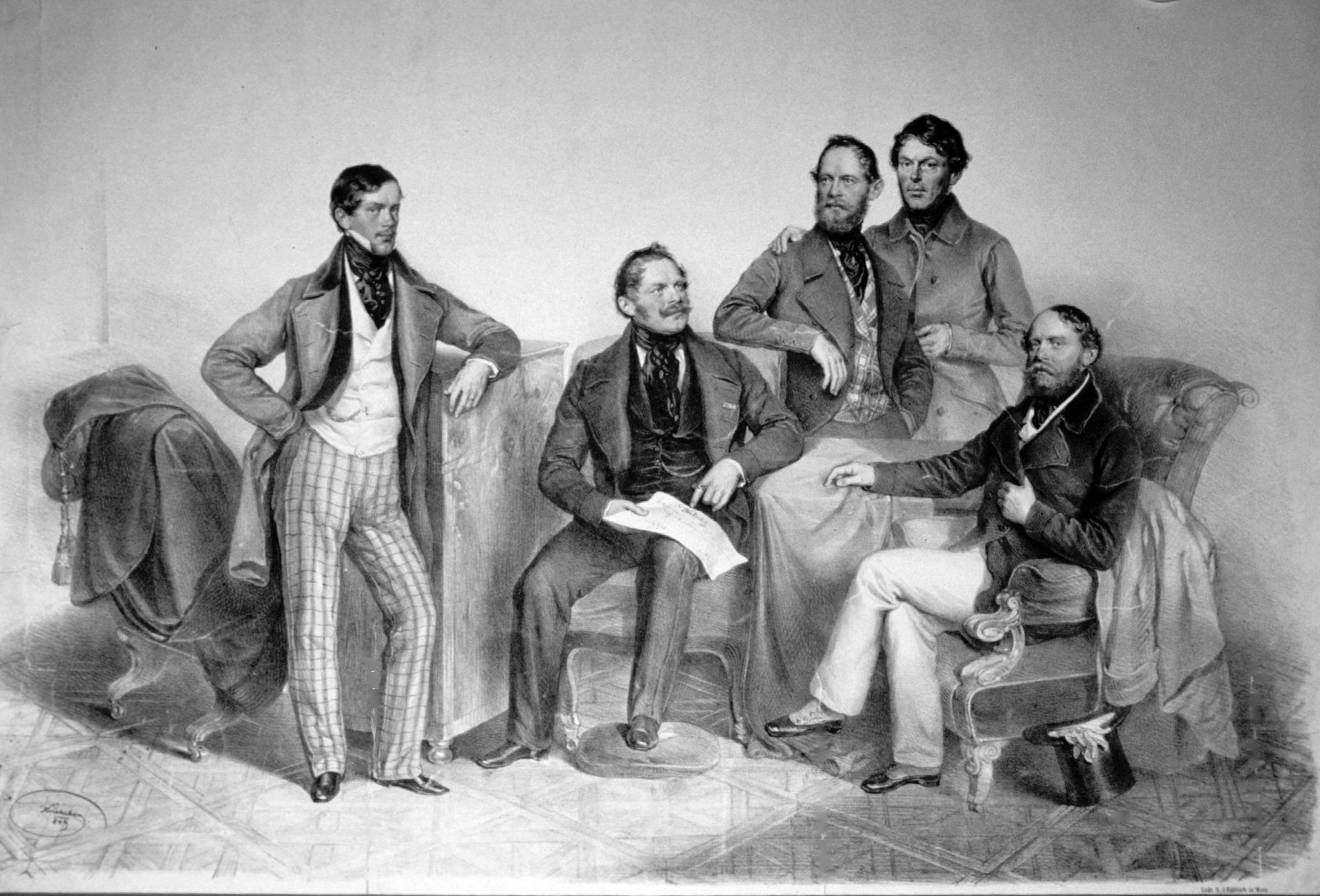 Brothers Kleins on litography from 1849 (Josef Kriehuber)